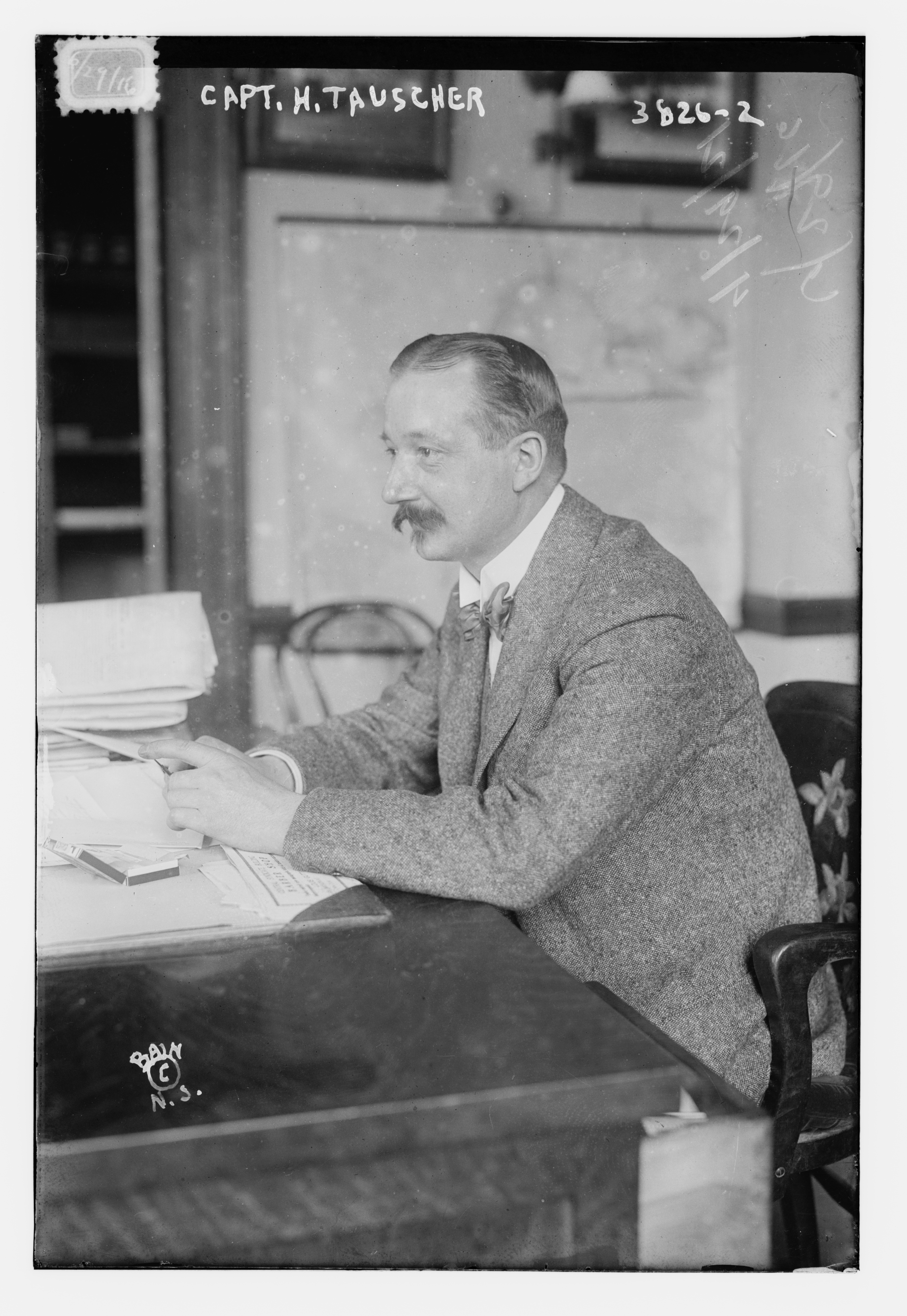 Captain Hans Tauscher in 1916